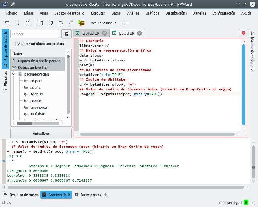 RKWard 0.6.5 release, over KDE Development Platform 4.14.18. Interface language is Galician (galego, gl_ES). vegan's betadiver example is being run.